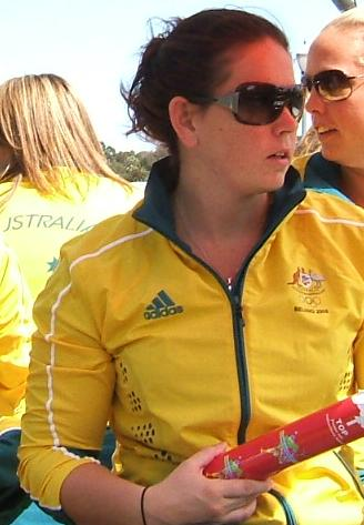 Alicia McCormack at the 2008 Olympic welcome home parade in Adelaide